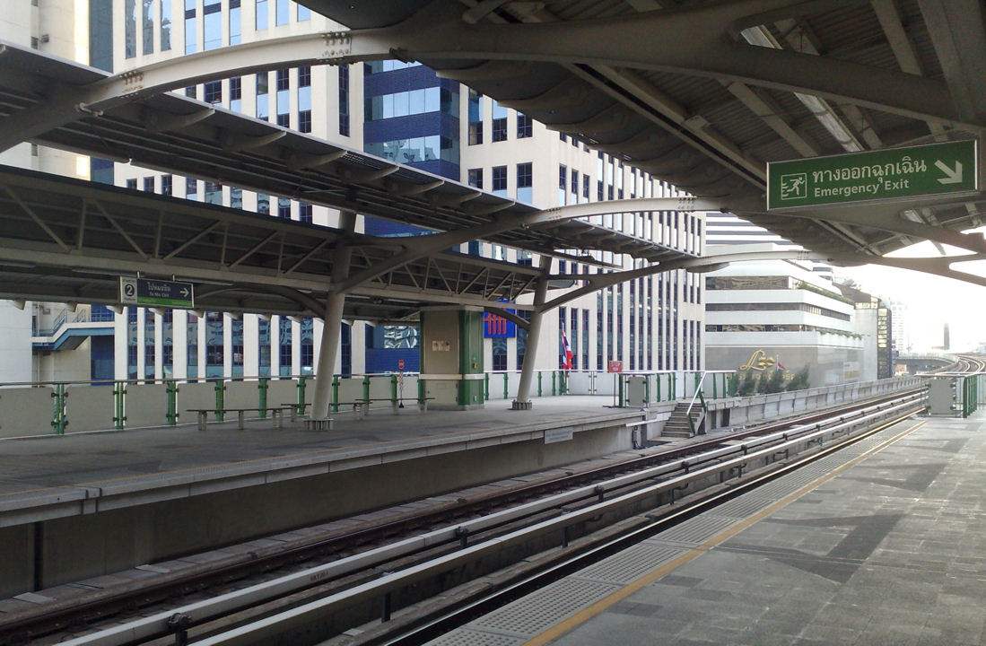 The Bangkok Skytrain (BTS) is a great way of getting around the congested city - flying over the endless traffic jams below! All the onboard announcements are in Thai and English - navigation is easy. This is Nana station with Pacific Place the blue building in the background.